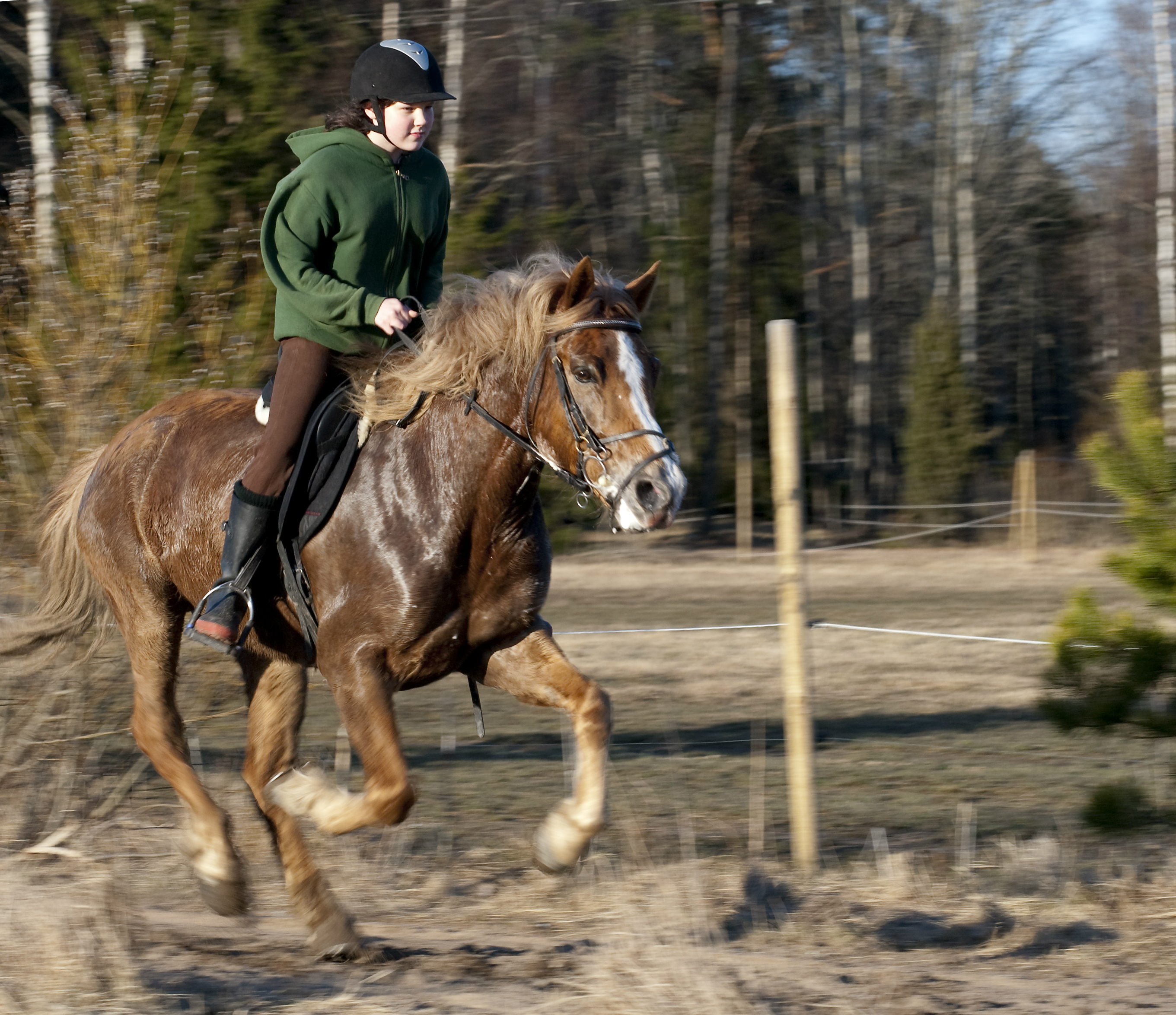 Teppo works up a sweat in early Spring